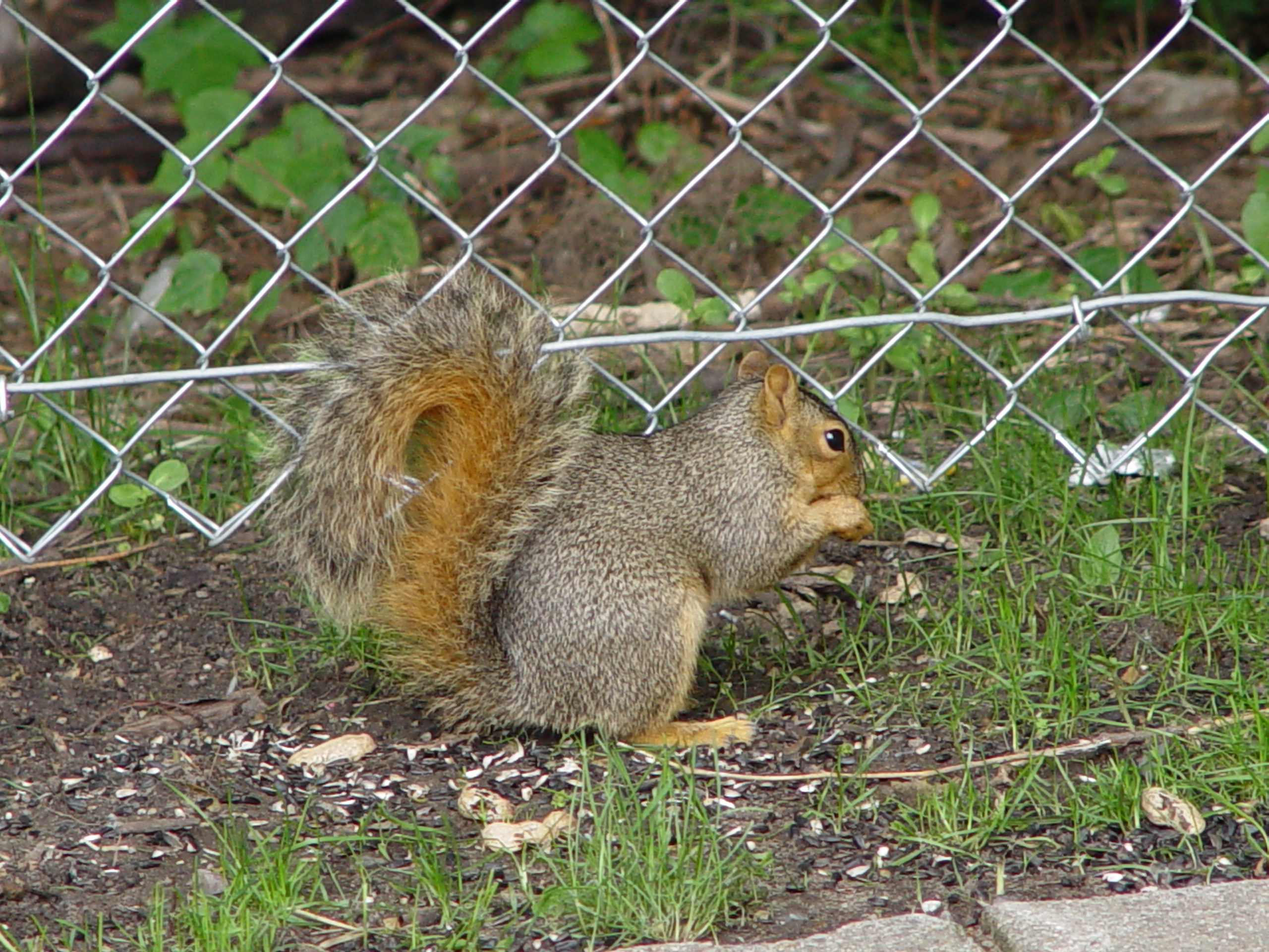 The power went out before I could blow dry my tail.